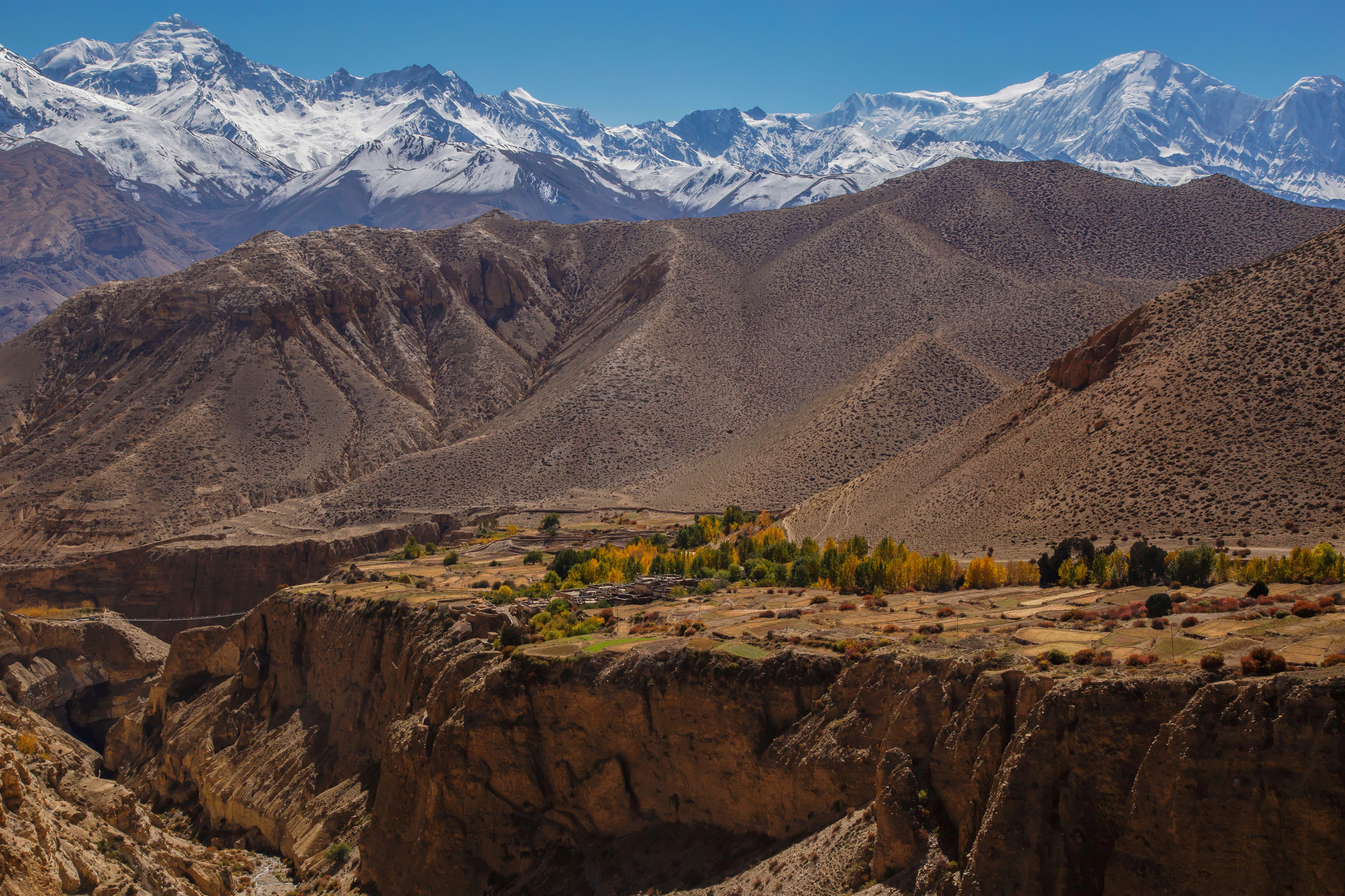 Majectic view on the village of Gyakar surrounded by a poplar grove and the summits of the Damodar Himal, the Purkung Himal and the Annapurnas. We were so lucky with the weather, having such a visibility all day long is not that common even in October after the monsoon. Notice the suspended bridge over the deep canyon on the left.